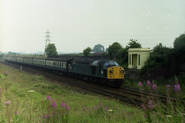 Huskisson's Memorial